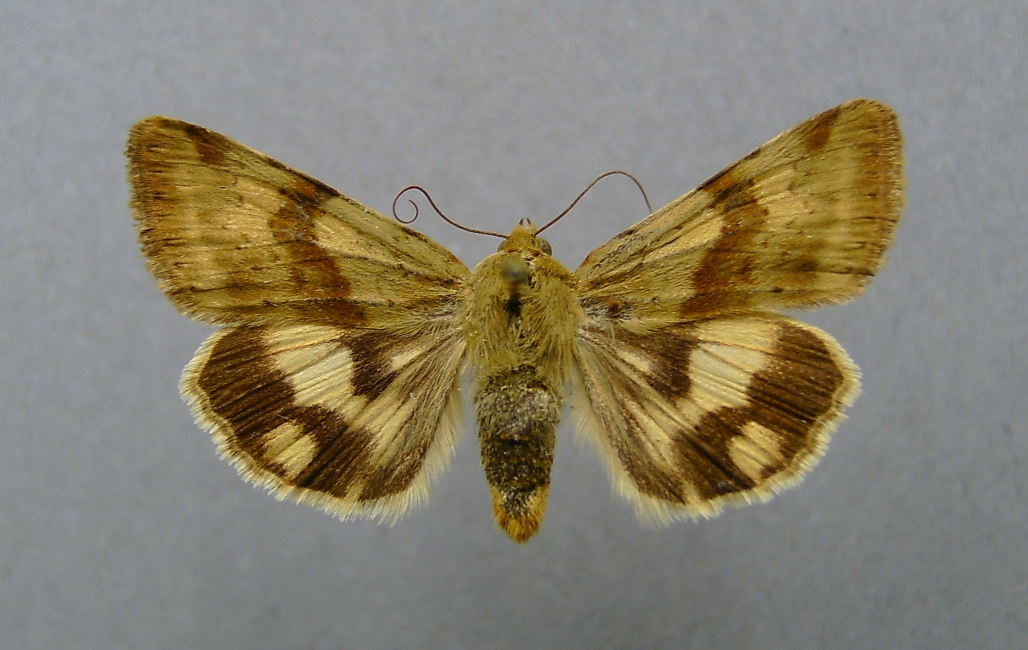 Heliothis adaucta, until 2009 conspecific with Heliothis maritima bulgarica; Nessebar, Bulgaria